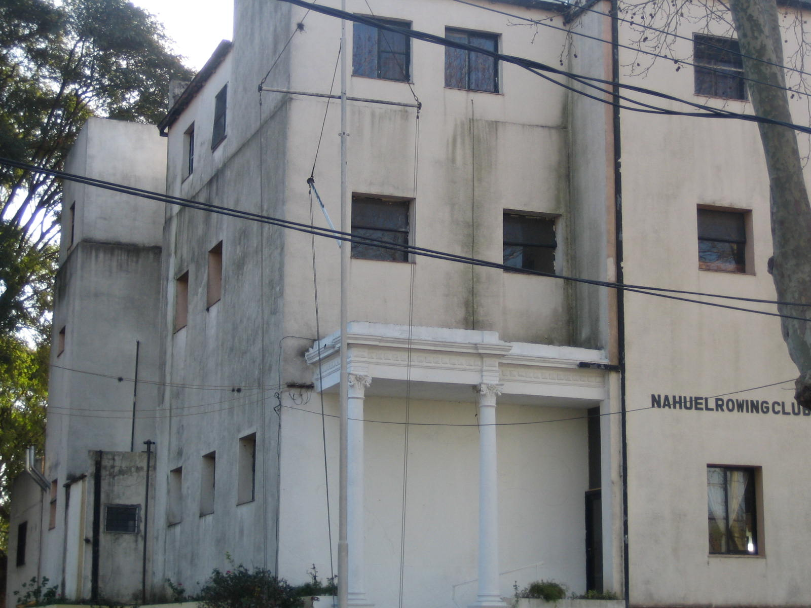 Nahuel Rowing Club - El Tigre - Buenos Aires - Argentina